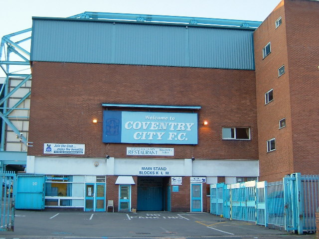 Highfield Road Stadium. Until 2005, home to Coventry City FC. Soon to be demolished for housing. The City hope to start the 2005 season in their new stadium at the Ricoh Arena